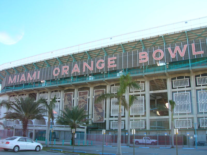 Located in Miami's Little Havana district, this photo outside of the Orange Bowl's west endzone was taken on February 14, 2006.